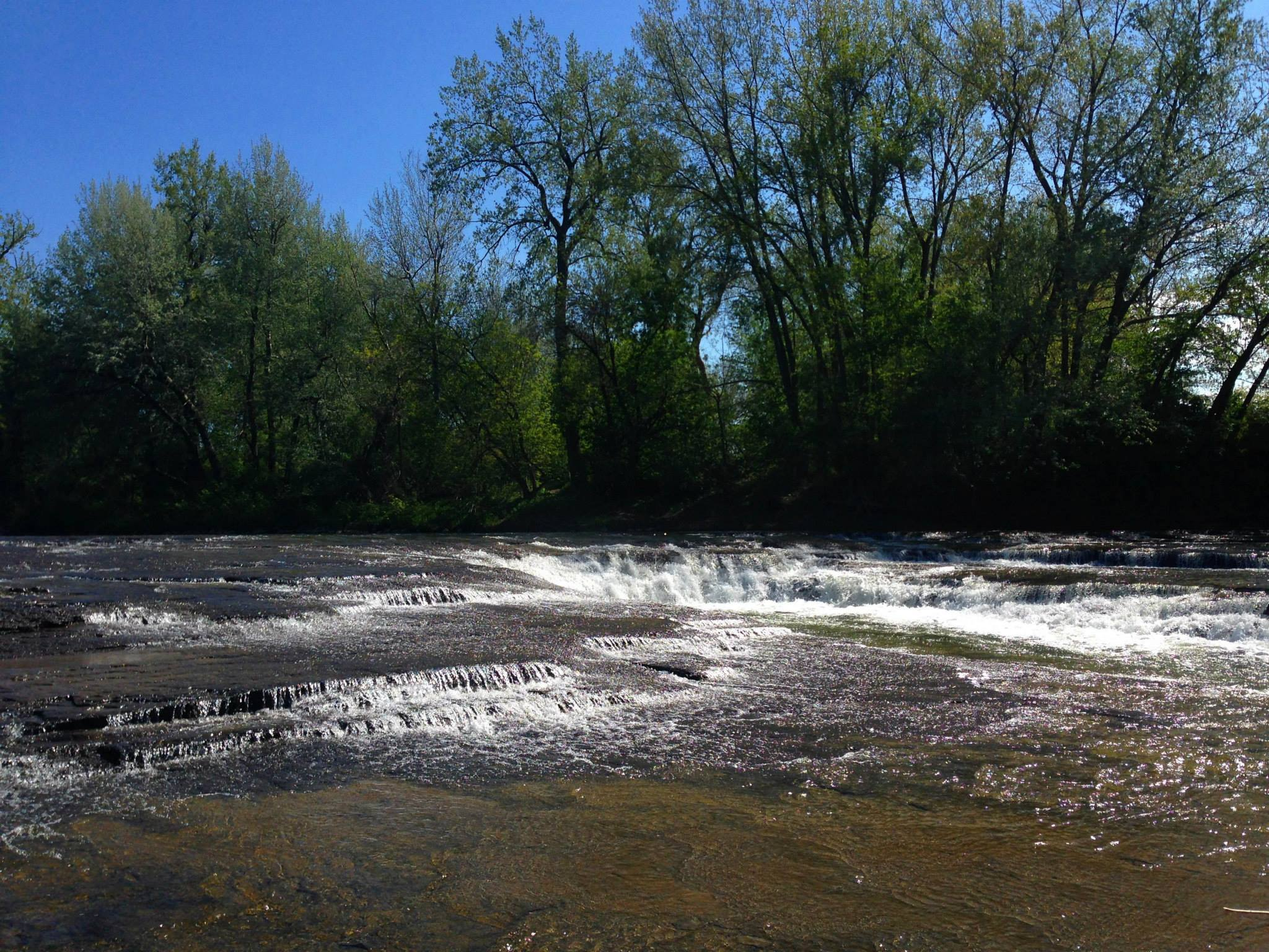 Located inside Cazenovia Park in South Buffalo, the horseshoe-shaped Cazenovia Park Falls revealed itself once again in 1965 after over half a century of submersion under a man-made lake. This six-foot (1.8m) vertical plunge sees the waters of Cazenovia Creek cascade over a ridge of dark, oil-rich shale.